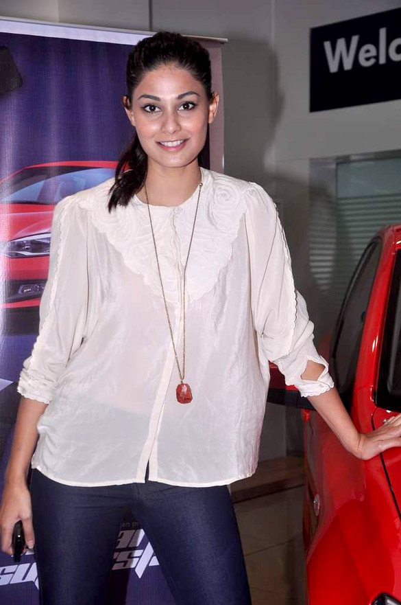 Puja Gupta Promotions of 'Go Goa Gone' in association with Volkswagen